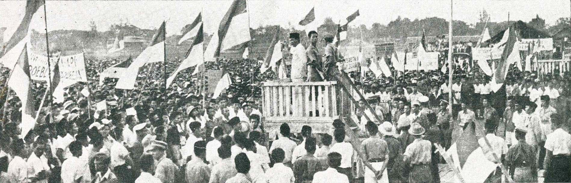 Sukarno speaking on a podium at Ikada Square (now Merdeka Square) Jawa: Soekarno sesorah ing ndhuwur podium ing Alun-alun Ikada (saiki Alun-alun Mardika)